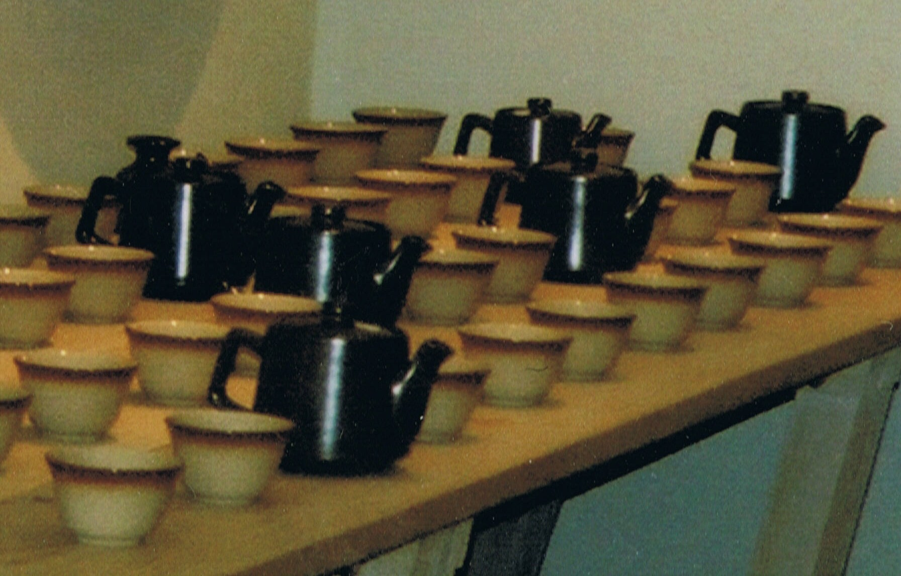 Dudson Brothers Ltd teapots and Colorado Boullions Regina, as shown in itre furniture by R. de Salis with help from U.K.R., 2003. (photo: R. de Salis)Rodolph (talk) 00:31, 28 January 2009 (UTC)